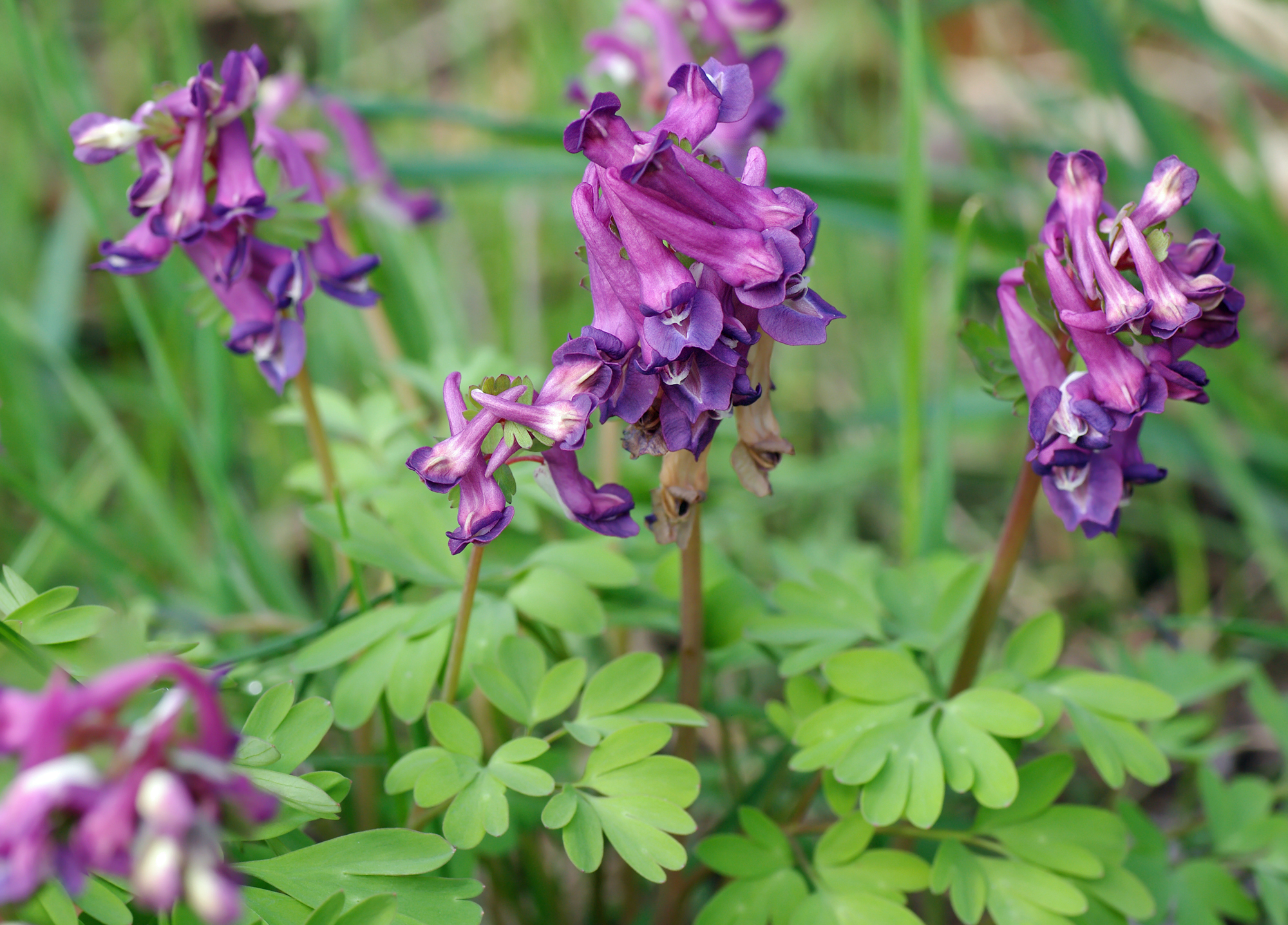 Flowering Solid tubered Corydalis, Corydalis solida – found in the open field outside of gardens (but believed to be synanthrope at that locality).